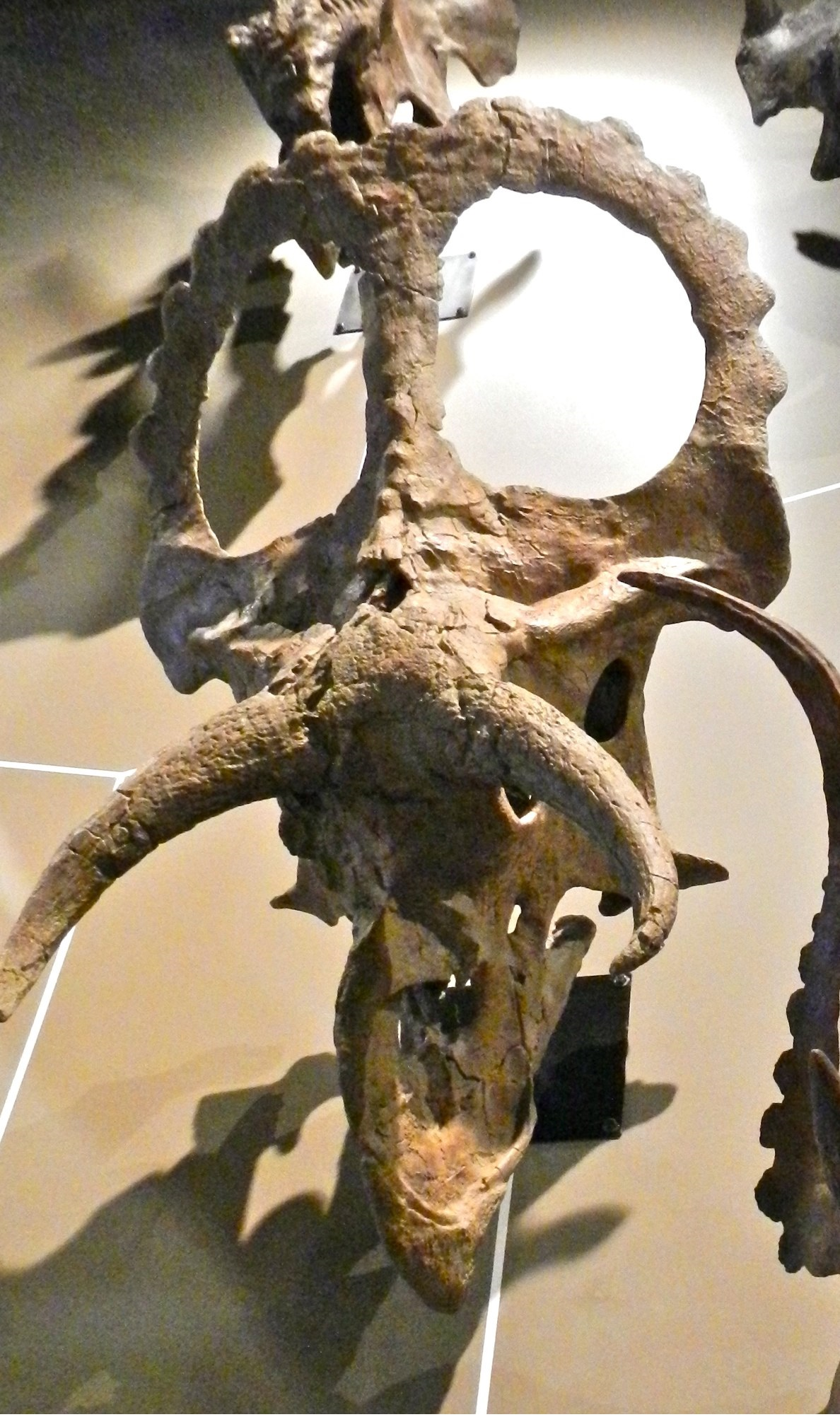 Nasutoceratops, Natural History Museum Salt Lake UT